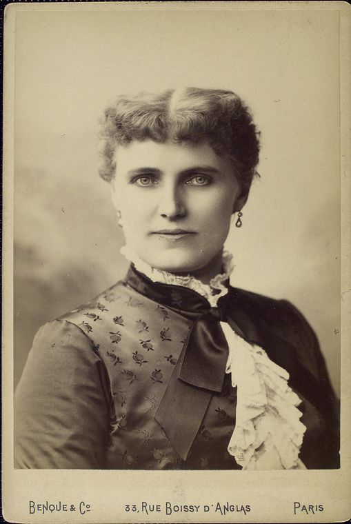 Portrait of Swedish soprano Christine Nillsson